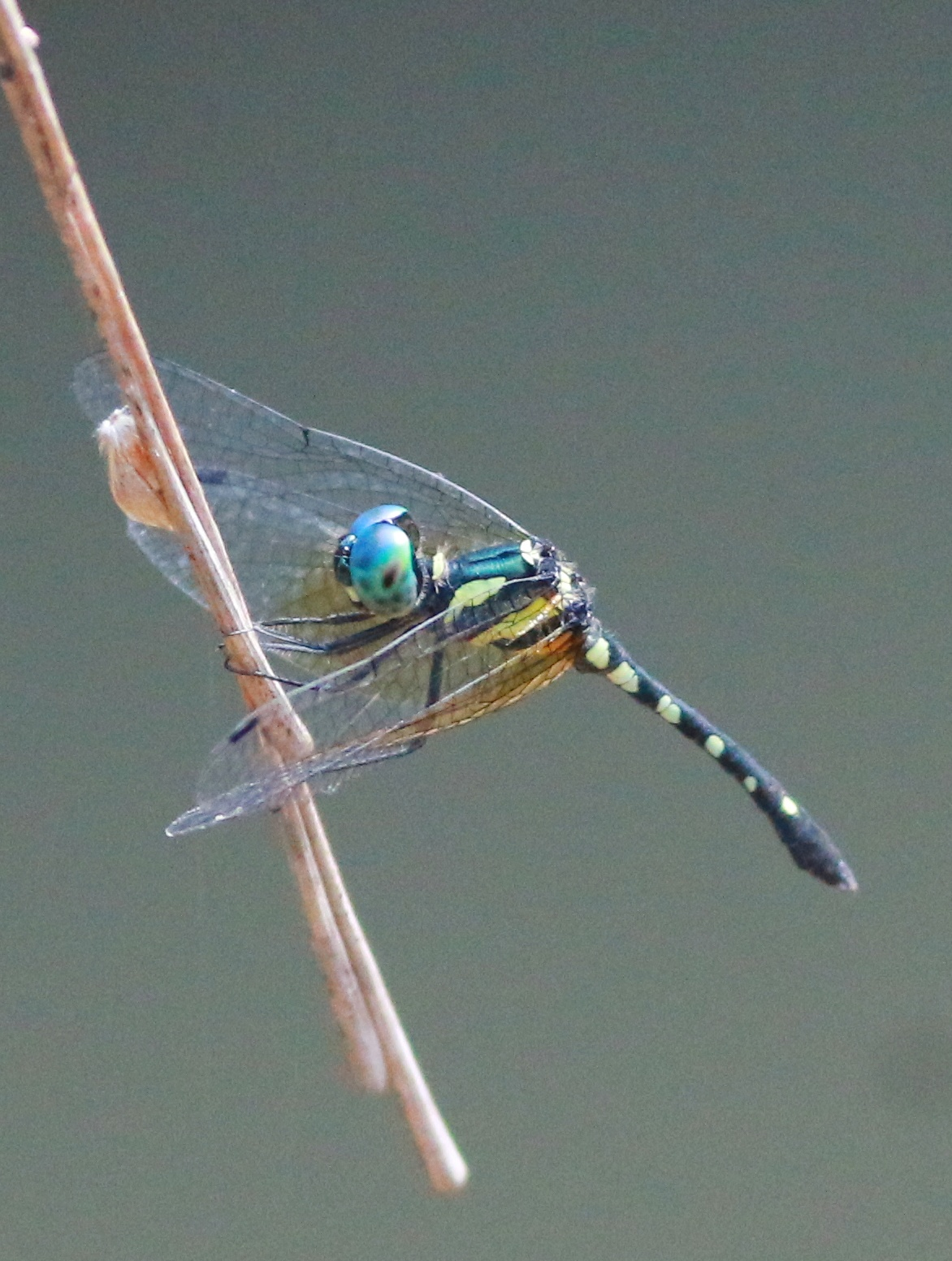 pigmy skimmer,Tetrathemis platyptera